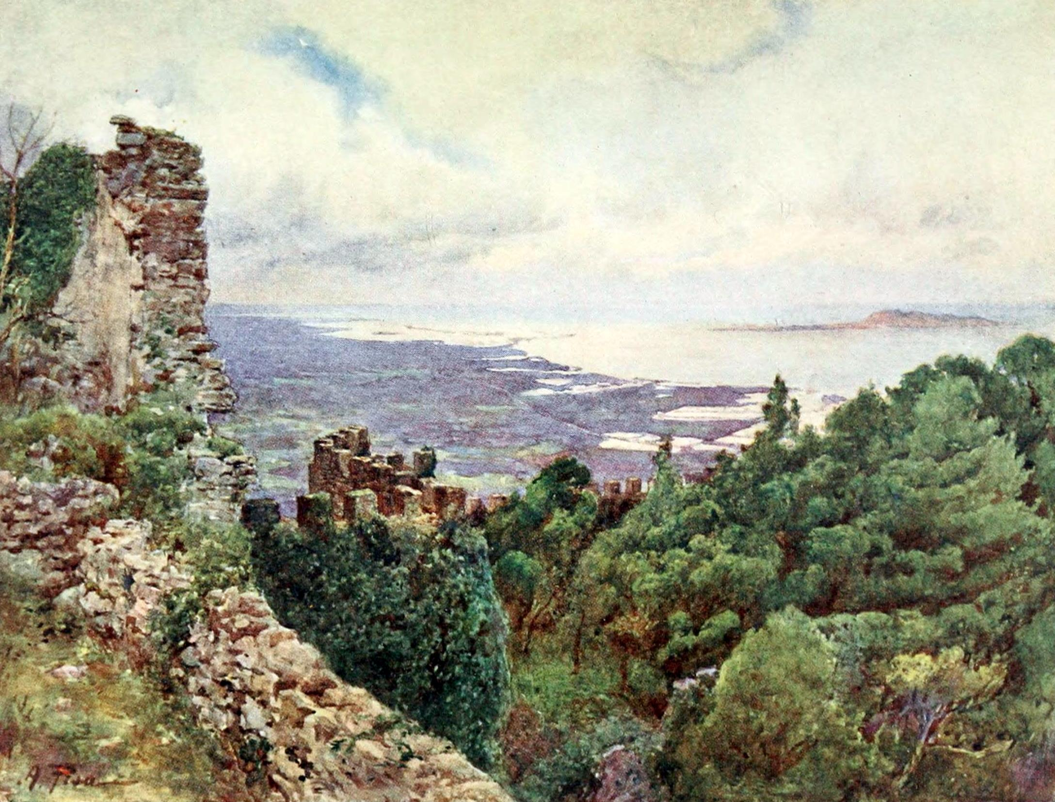 Coast of Trapani and Aegadian Islands from Castle of Venere